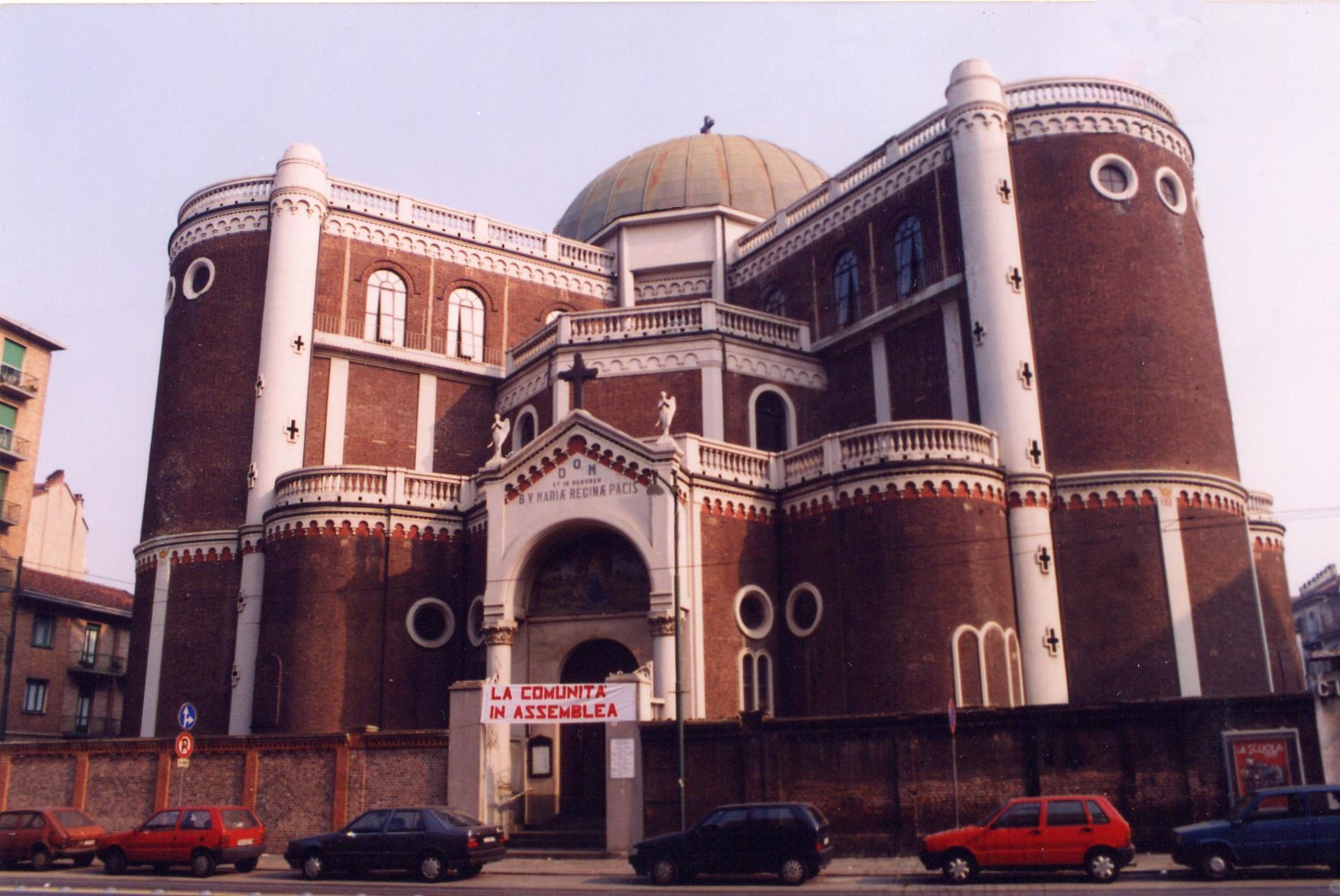 The Mary Queen of Peace Parish (Maria Regina della Pace), in Turin, Italy.